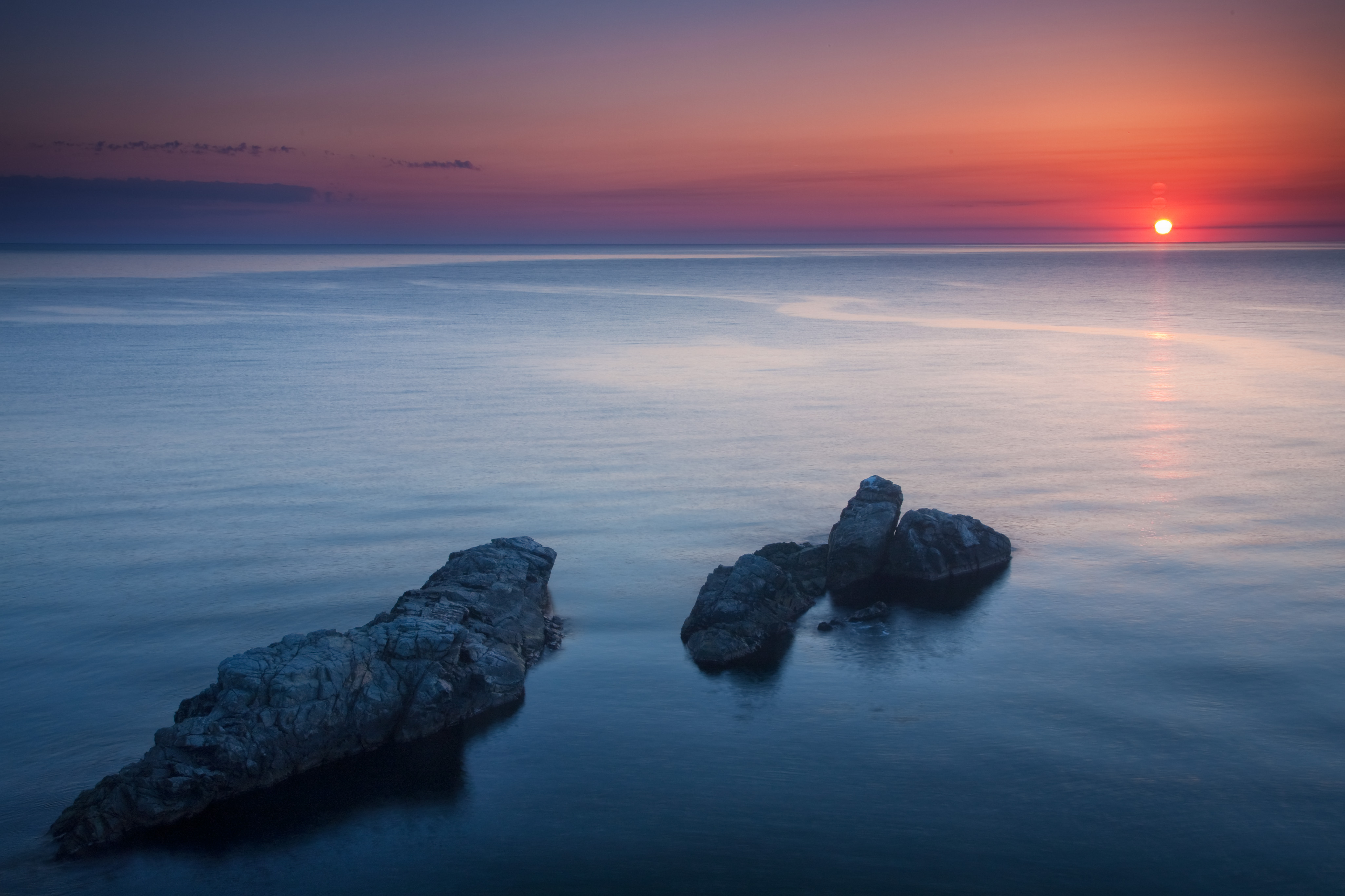 Kolokita (Bulgaria) at sunrise